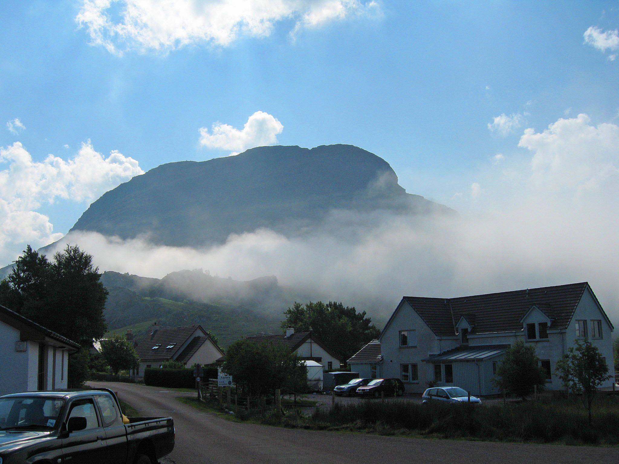 Early morning, Shieldaig.